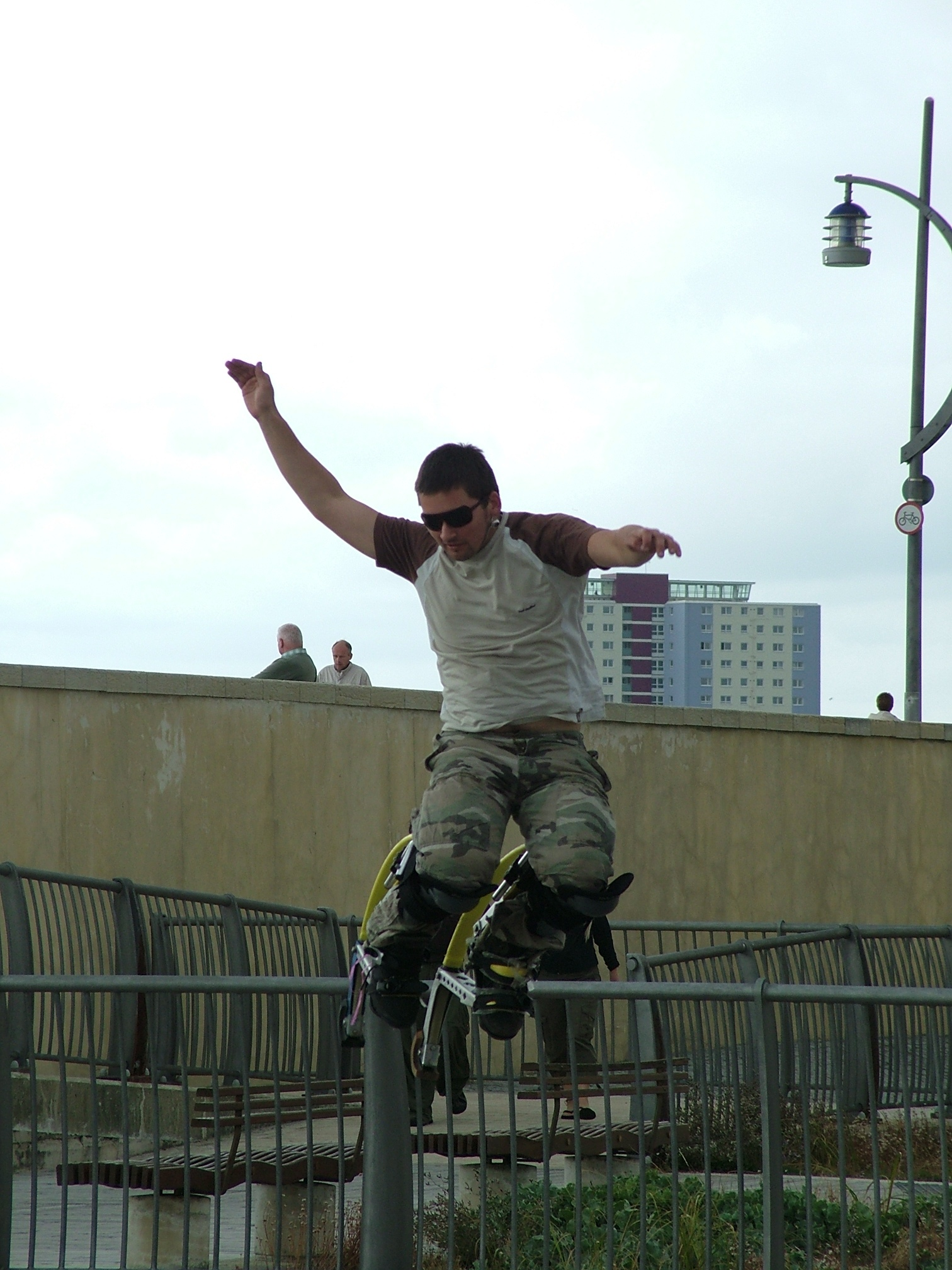 power bocking in the hot walls portsmouth uk